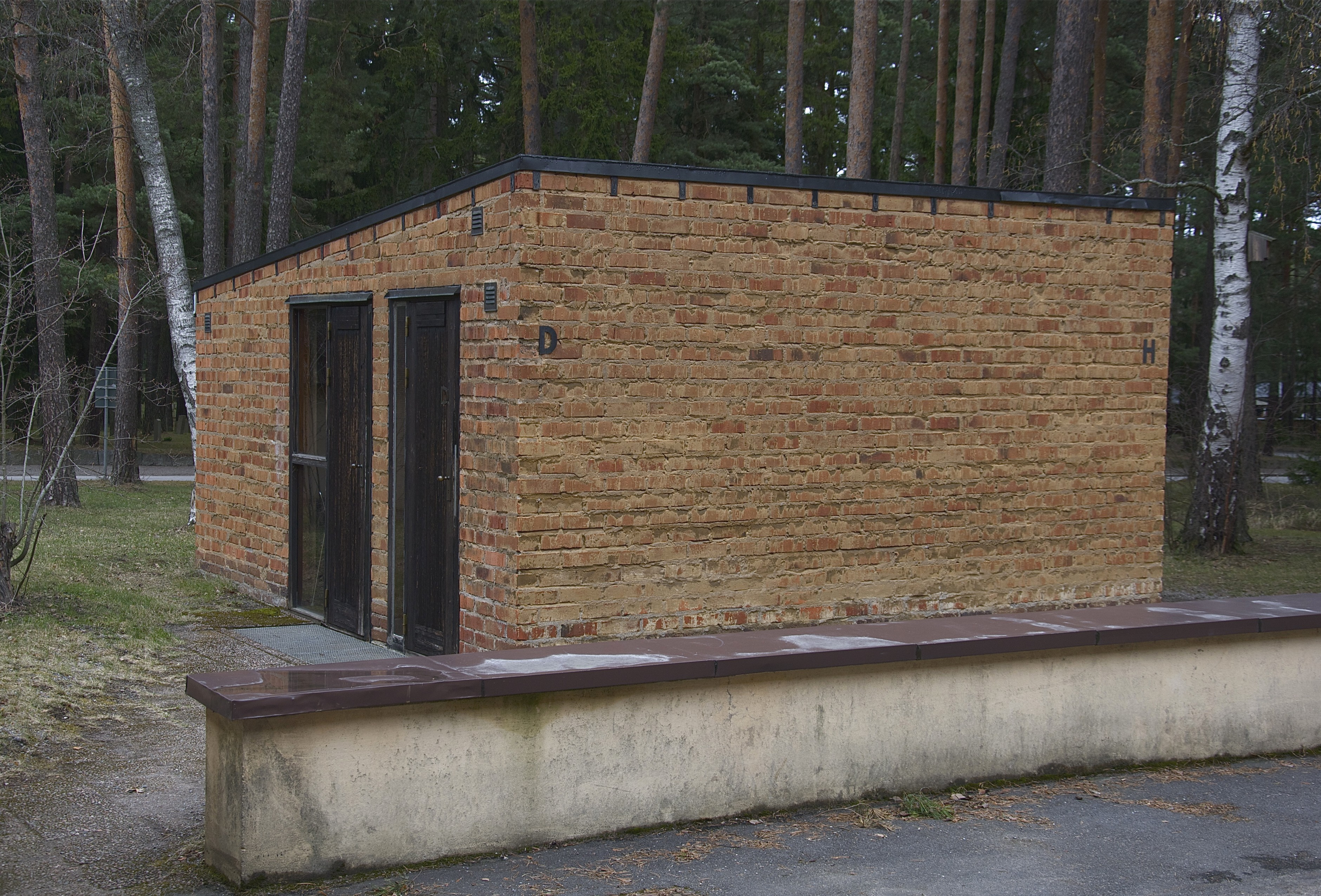 Annex till Uppståndelsekapellet